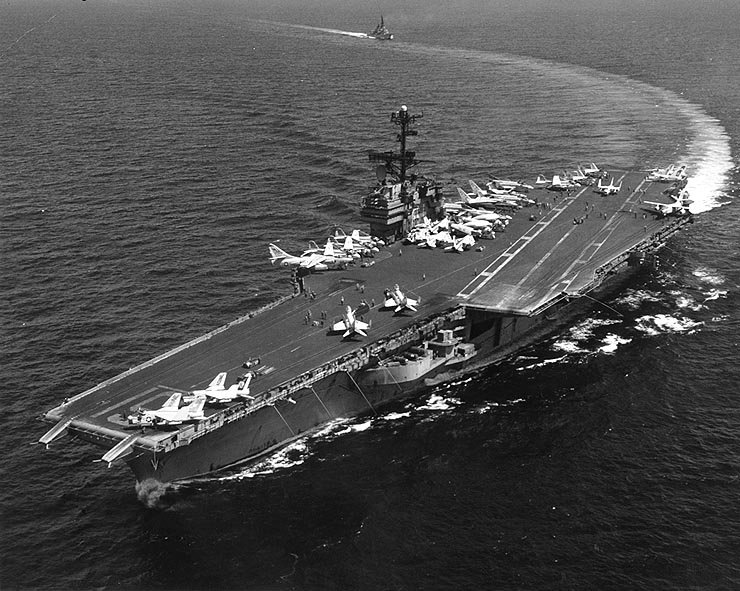 The U.S. Navy aircraft carrier USS Ranger (CV-61) underway at sea, circa 1978 (this photograph was received by the Naval Photographic Center in May 1978).